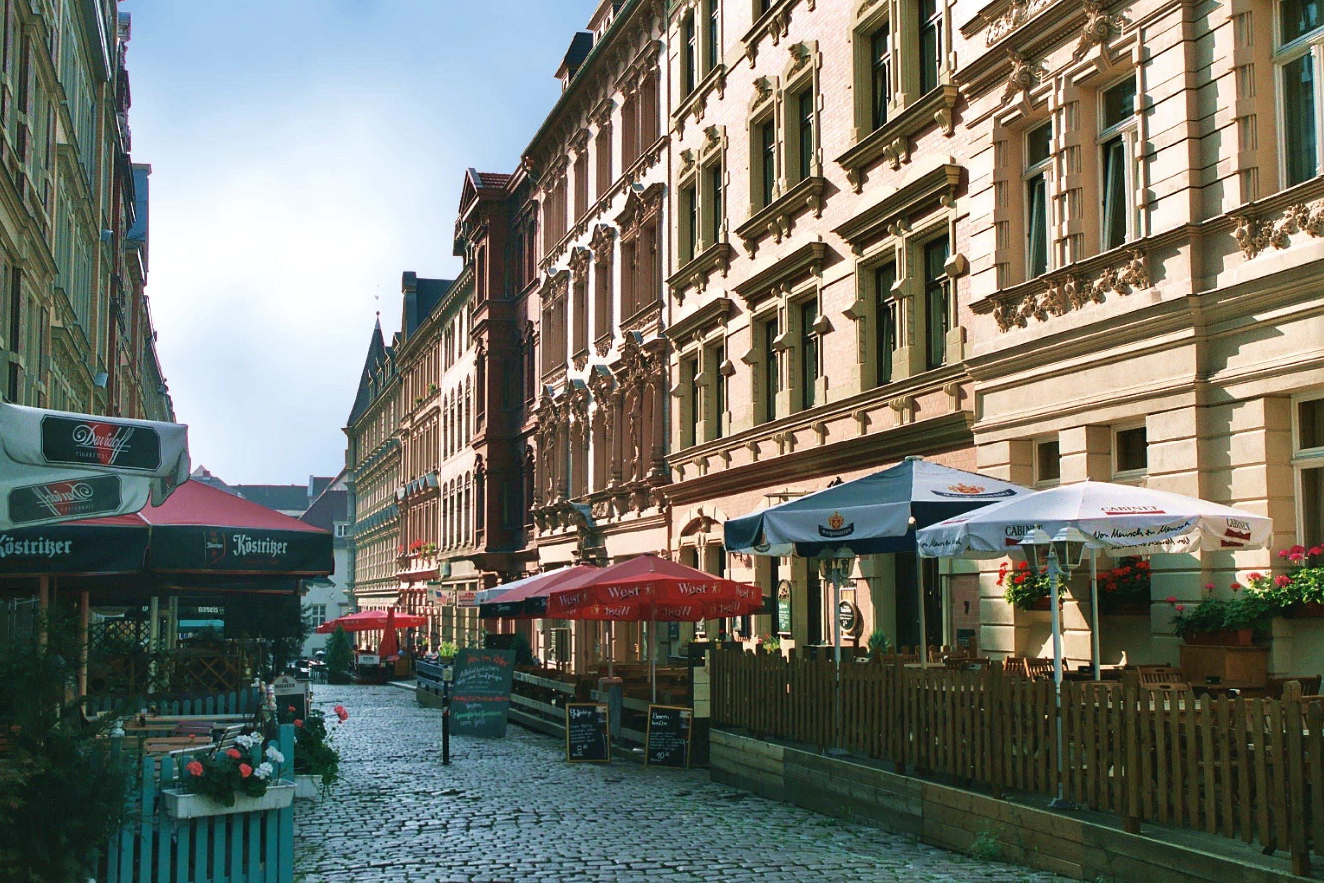 Halle (Saale), view to the Sternstraße